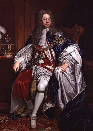 All images in this batch have been confirmed as author died before 1939 according to the official death date listed by the NPG.